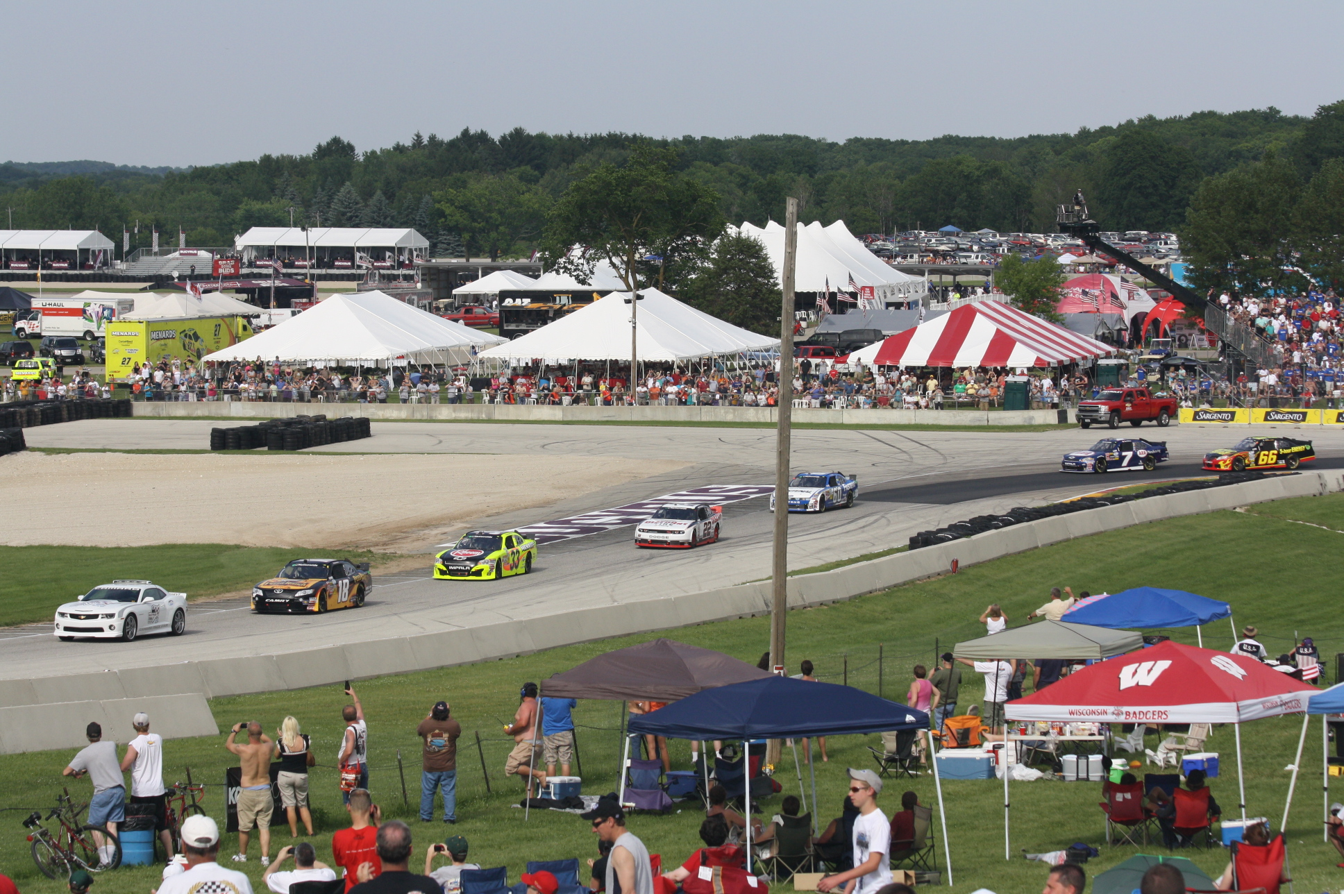 Looking northeast at Turn 5 of the starting field at Road America during the 2011 Bucyros 200 Nationwide Series race.